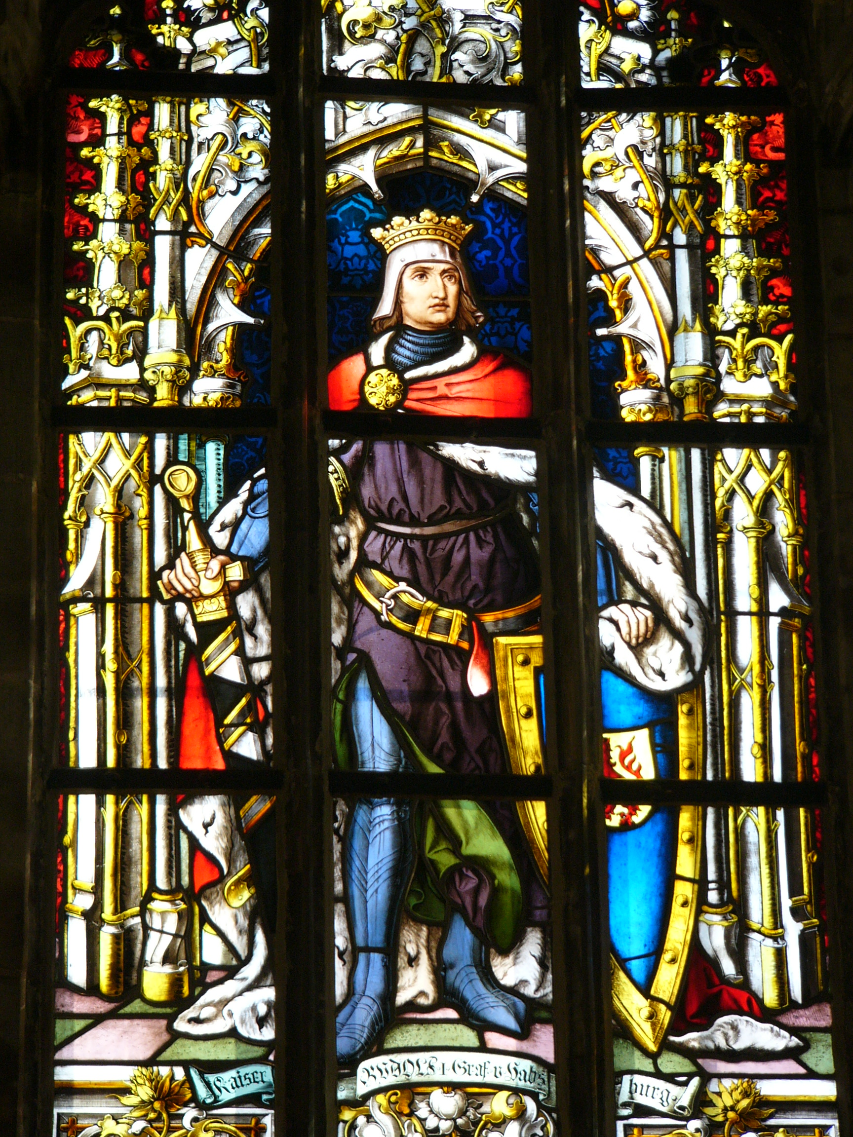 Rudolph I of Germany at stained glass in Saint Jerome's chapel in town hall in Olomouc (Czech Republic).